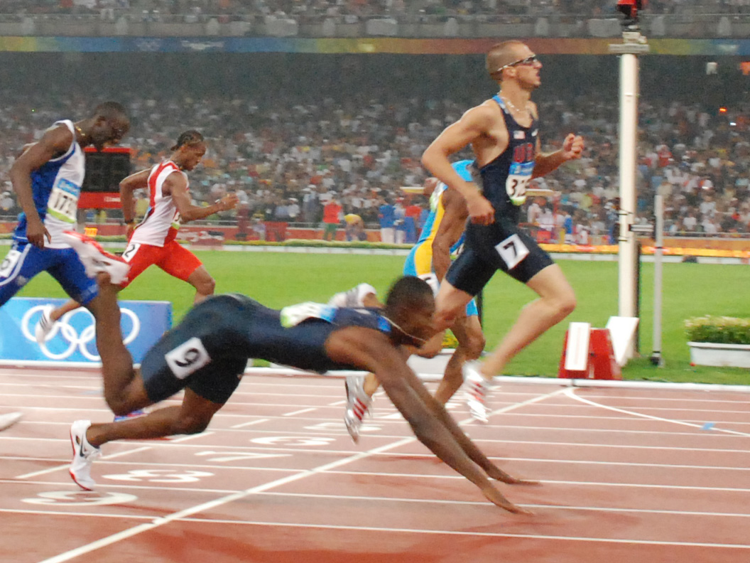 David Neville diving on the finish line to take the third spot in the 400m final at the Beijing olympics, august 21st 2008.